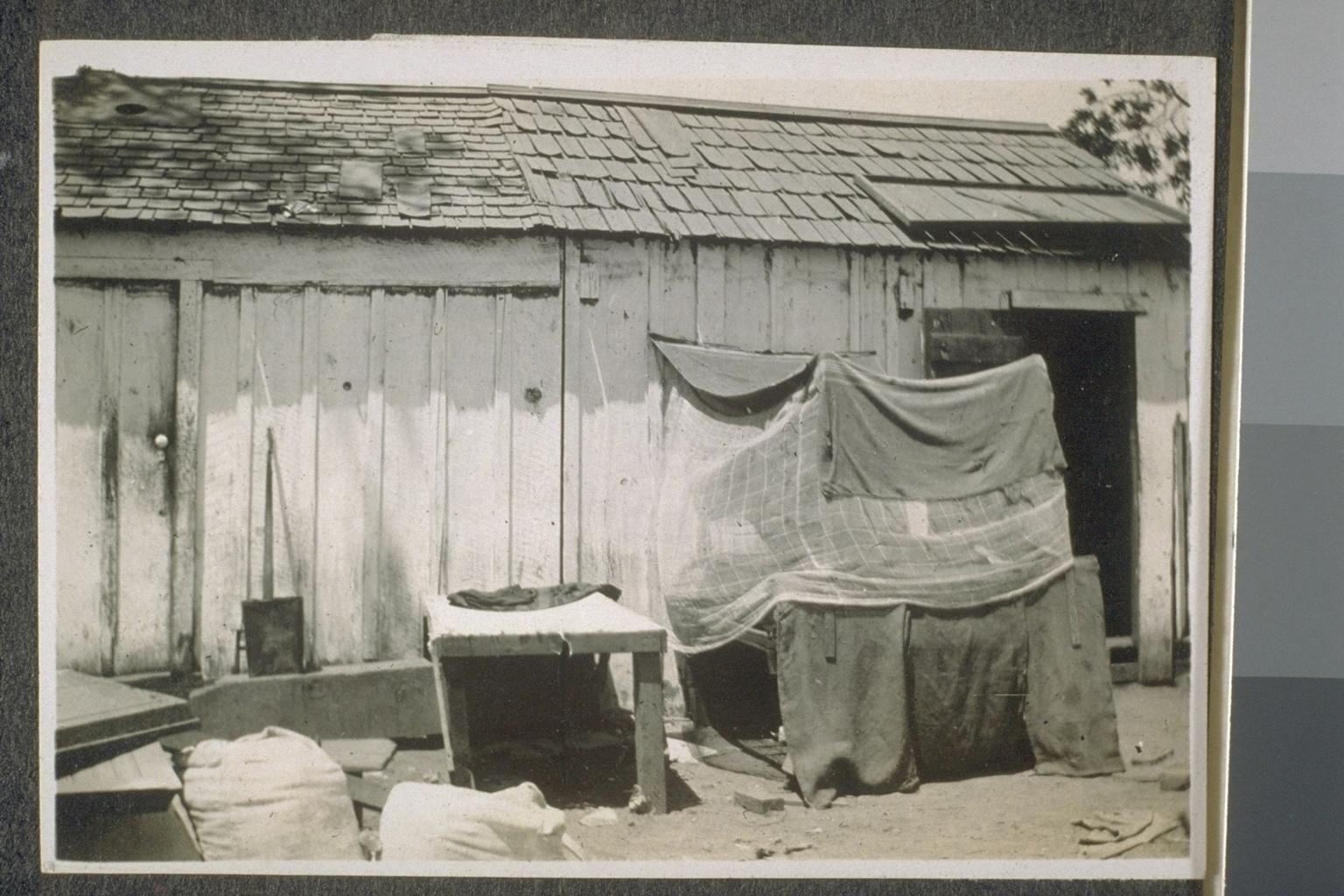 Photograph of a "hindu bed," makeshift shelter for Indian farm laborers, most likely shot in California.